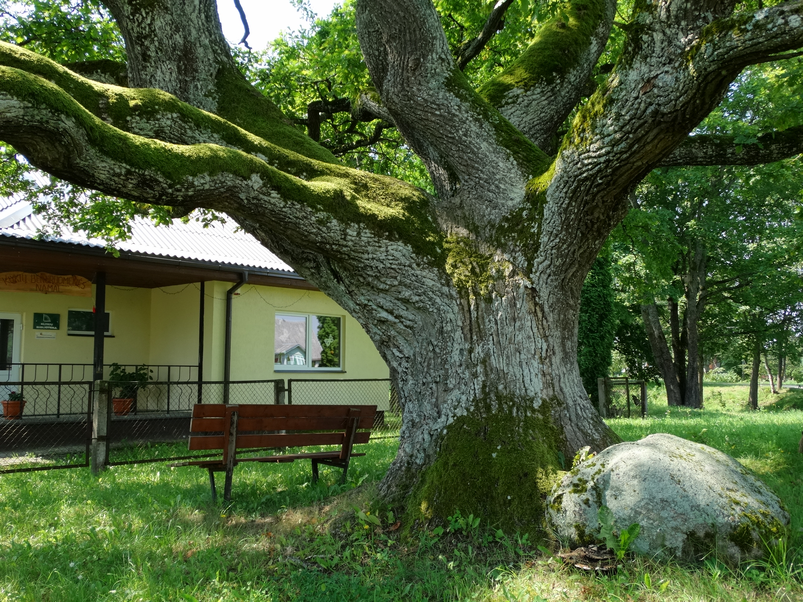 Klykiai Oak, Utena district, Lithuania